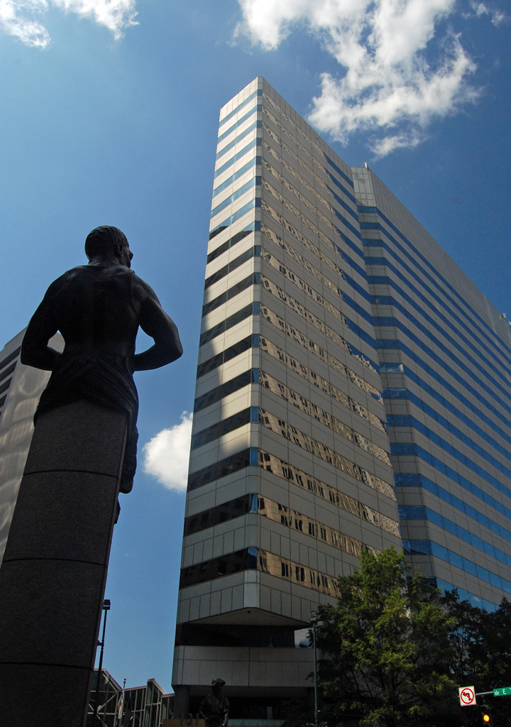 101 Independence Center, Charlotte, NC